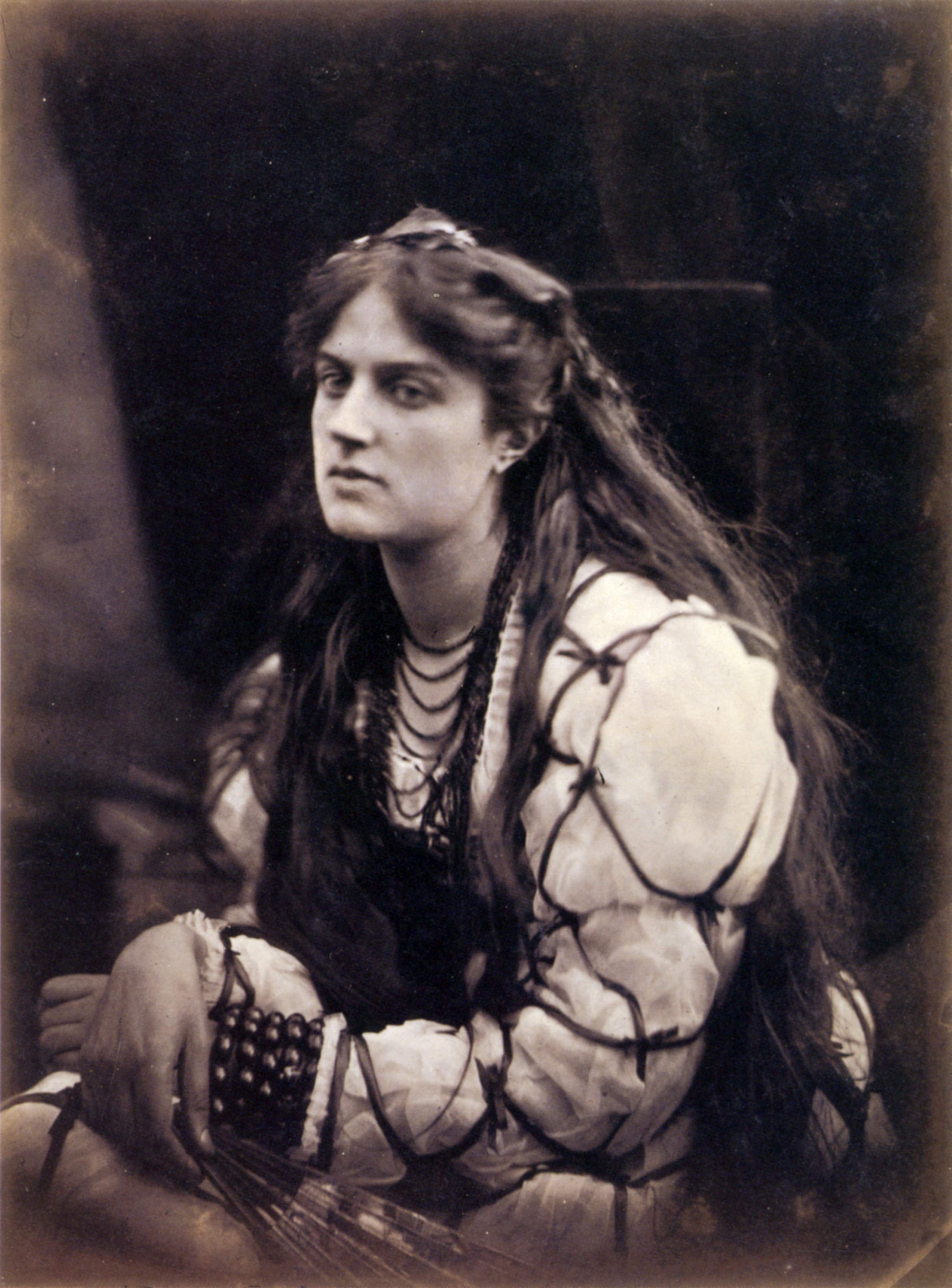 Hypatia. Model is Marie Spartali. Albumen print, 335 x 246mm (13 1/4 x 9 5/8").